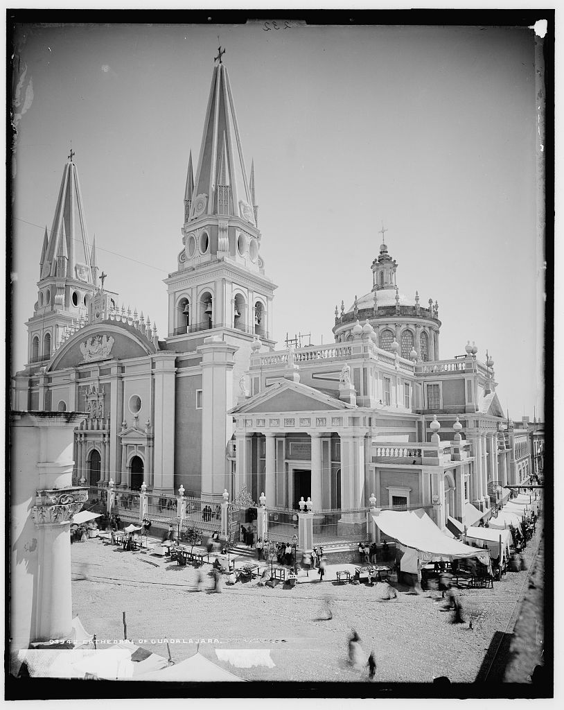 Cathedral of Guadalajara in the late 19th century. Currently corner of 16 de Septiembre avenue and Morelos street. Guadalajara, Jalisco, Mexico.